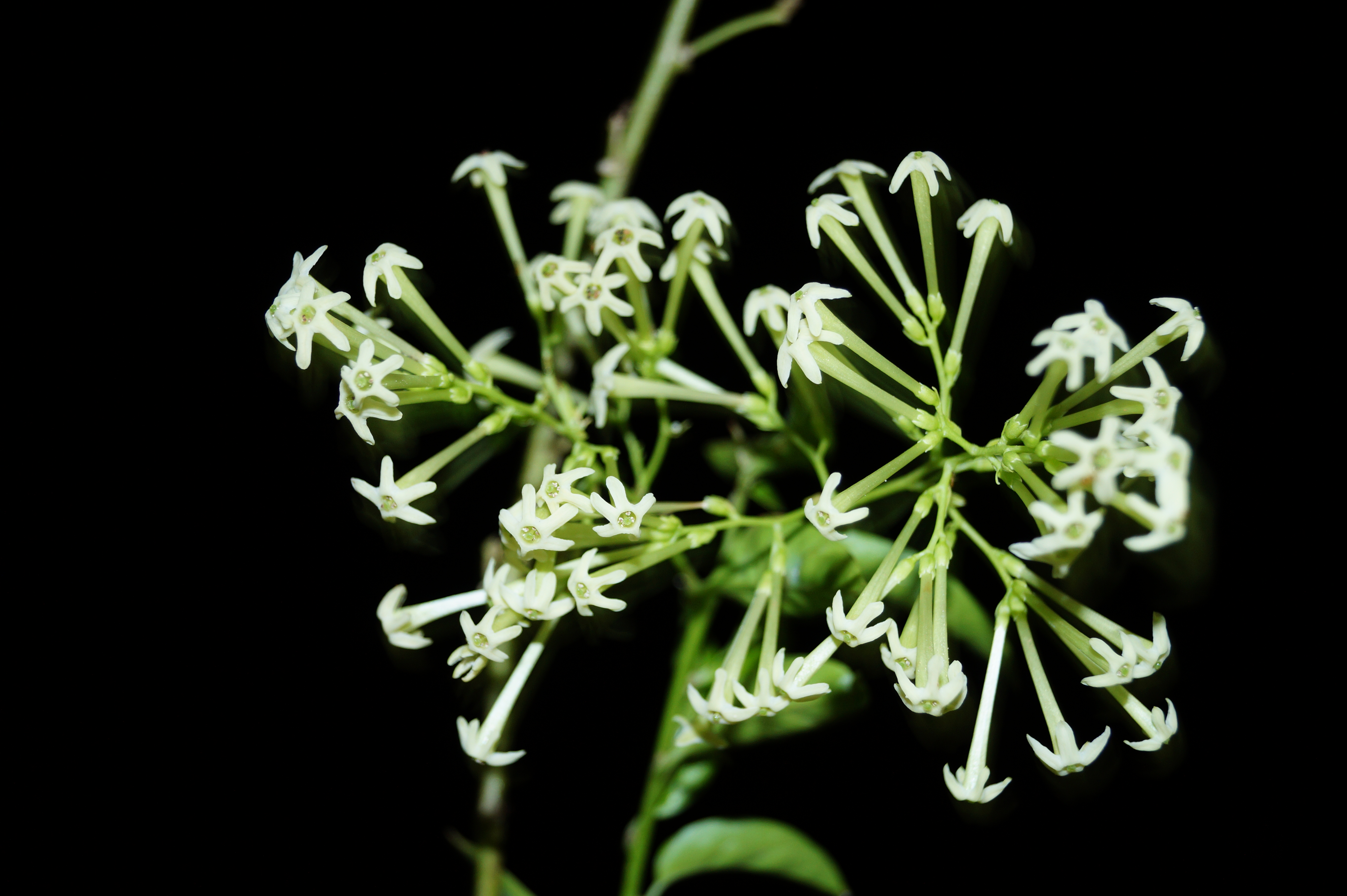 Night blooming Jasmine at full bloom